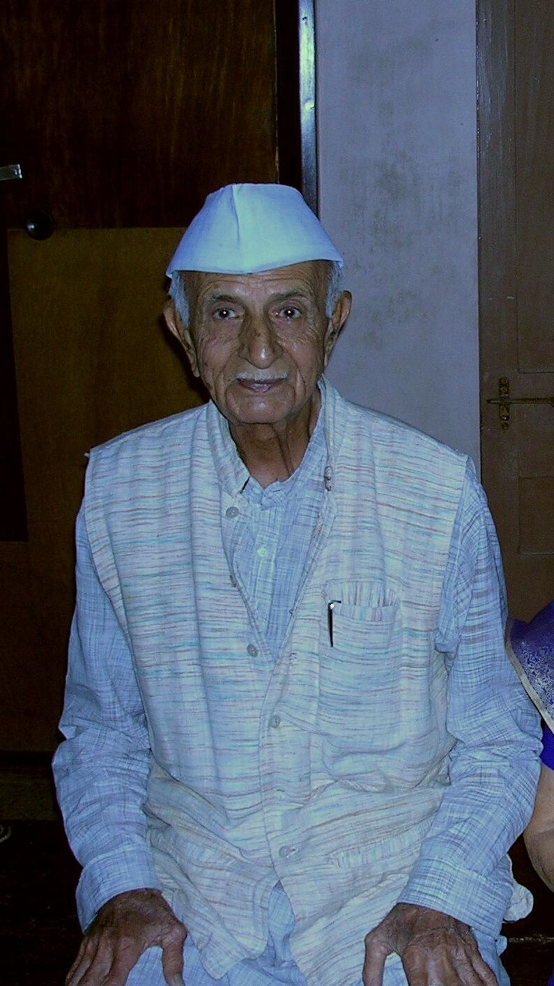 Prof PC Vaidya at his Ahmedabad residence November 2005